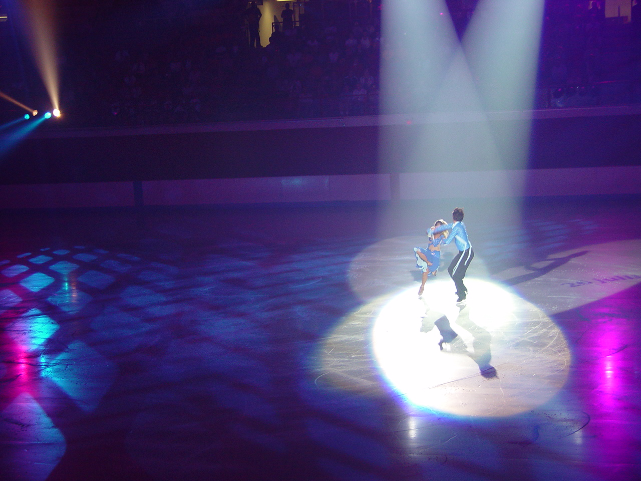 OutGames Montral 2006, Figure Skating